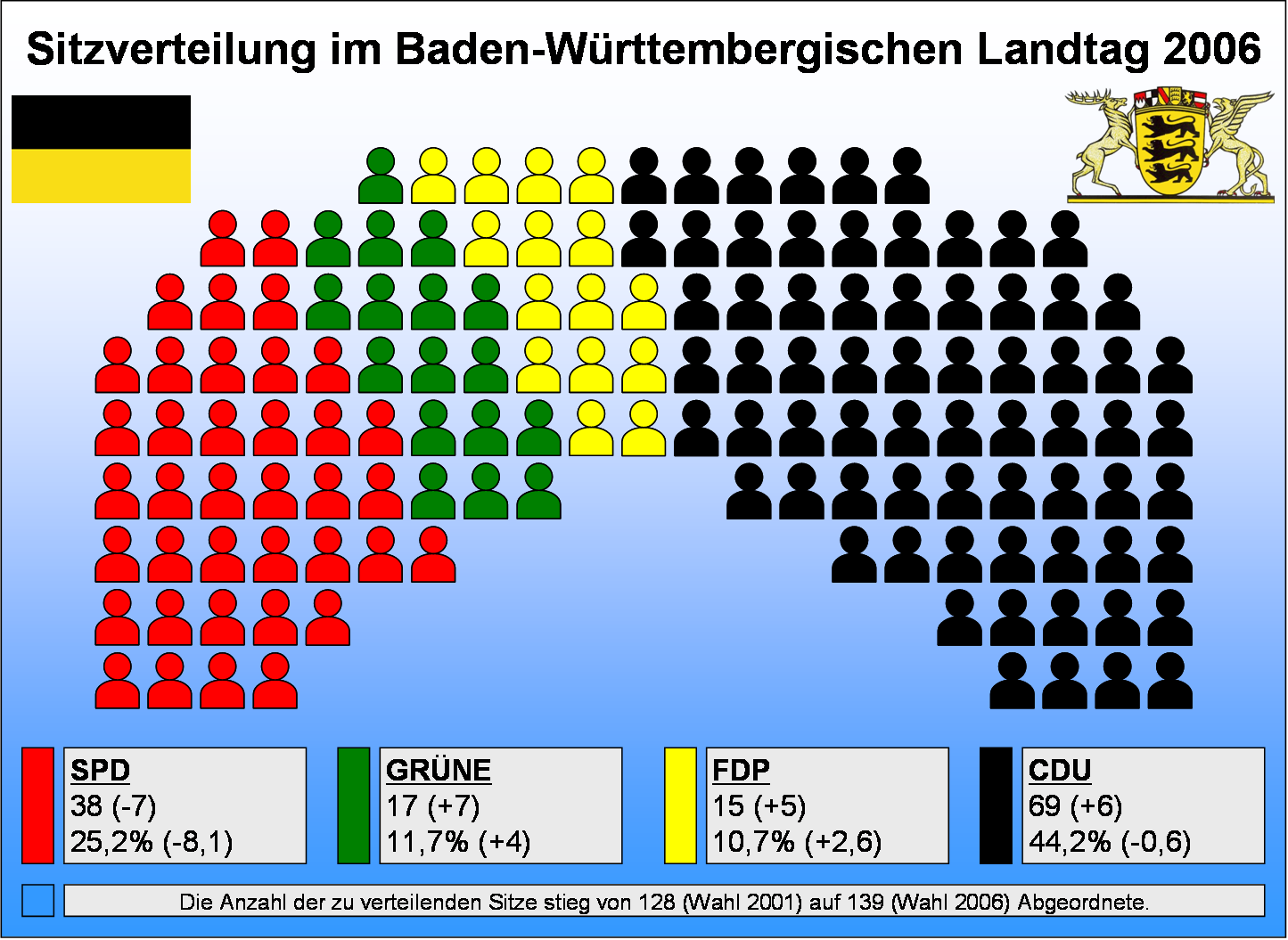 seating of the Landtag of Baden-Württemberg